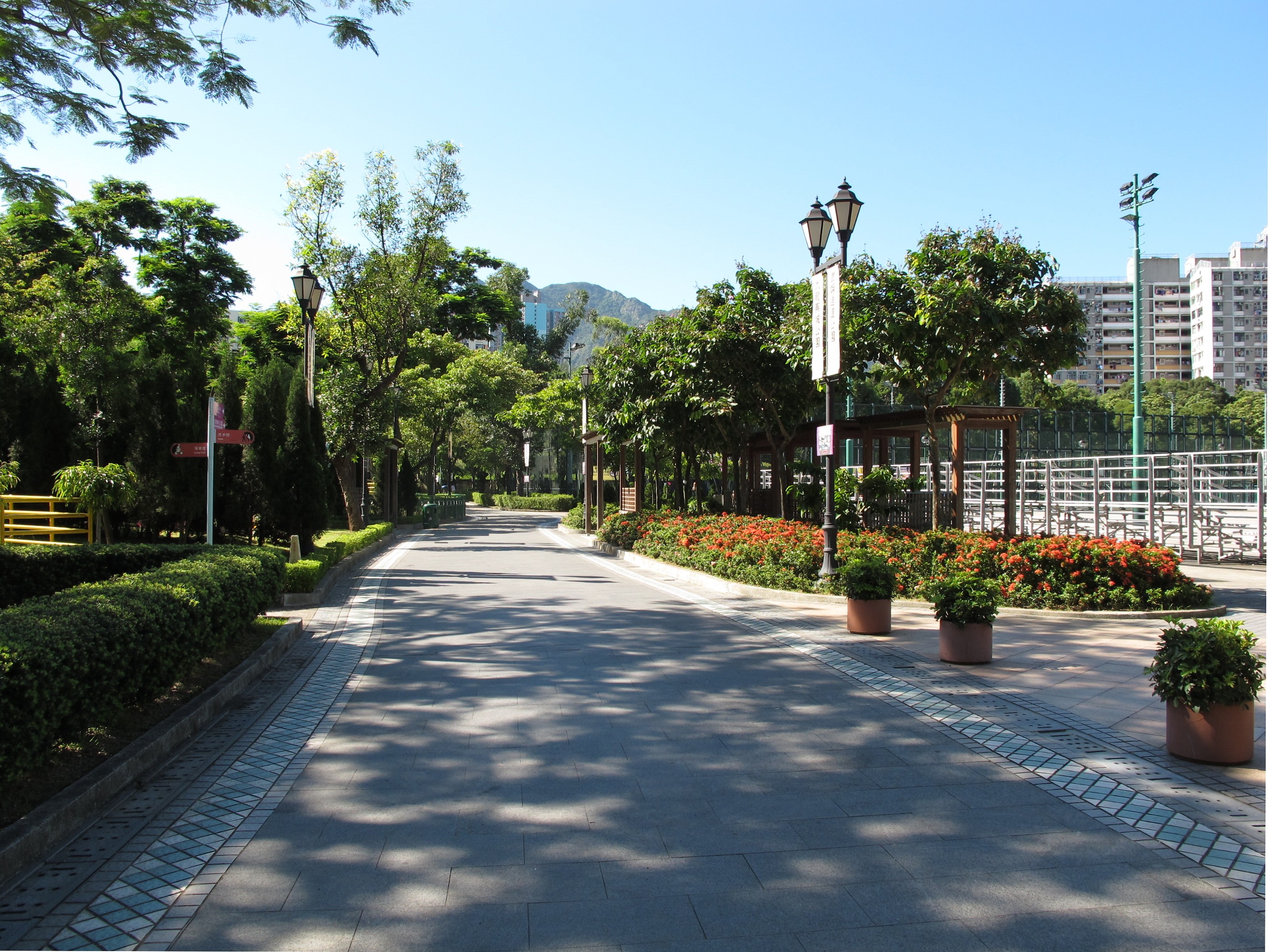 Carpenter Road Park 賈炳達道公園